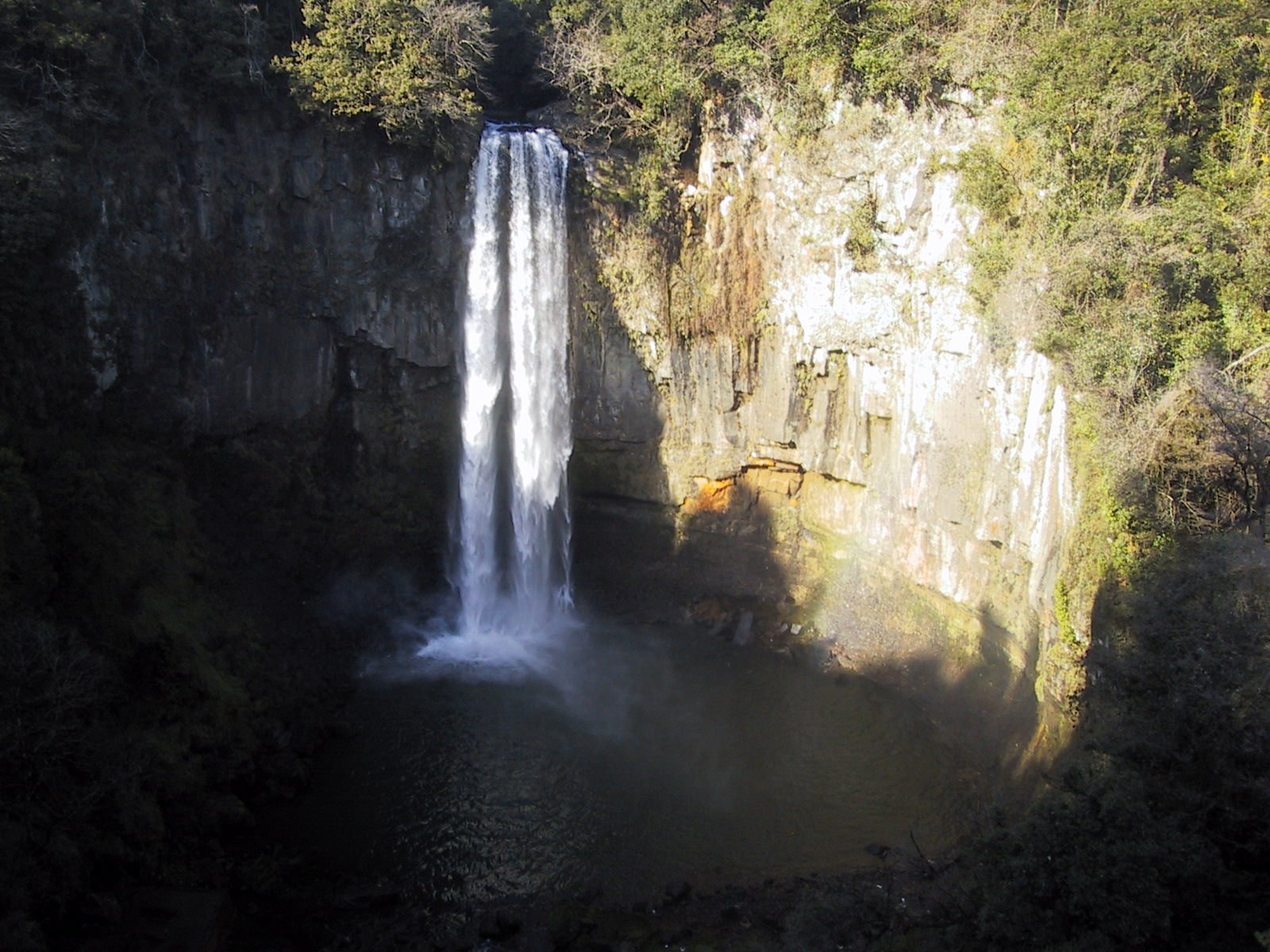 Gorogataki falls, Yamato, Kumamoto, Japan